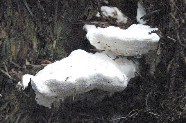 Postia stiptica from Commanster, Belgium. The determination of the species shown in this picture has been verified.